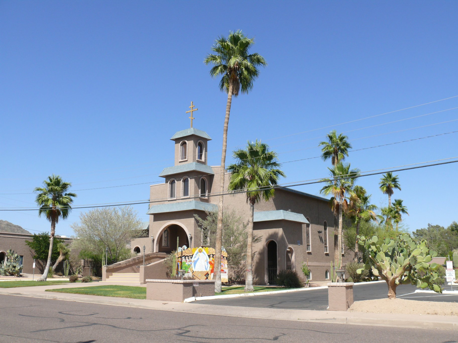 Saint Stephen's Byzantine Catholic Cathedral of Phoenix (Arizona, USA).